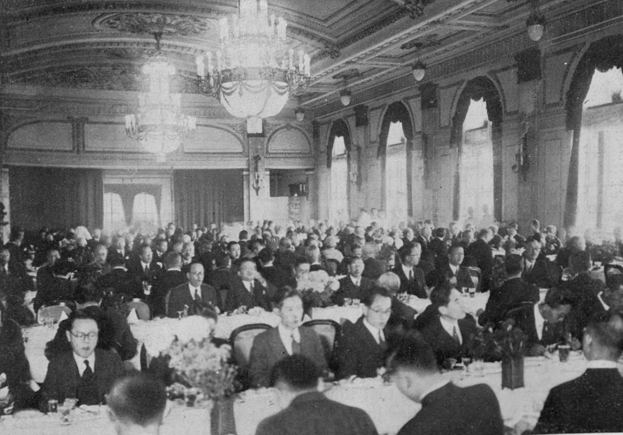 Luncheon party, held at Tōkyō Kaikan (Marunouchi) to announce the formal establishment of the (fachist) Central Federation of Nippon Culture (Nippon Bunka Chuo Renmei).